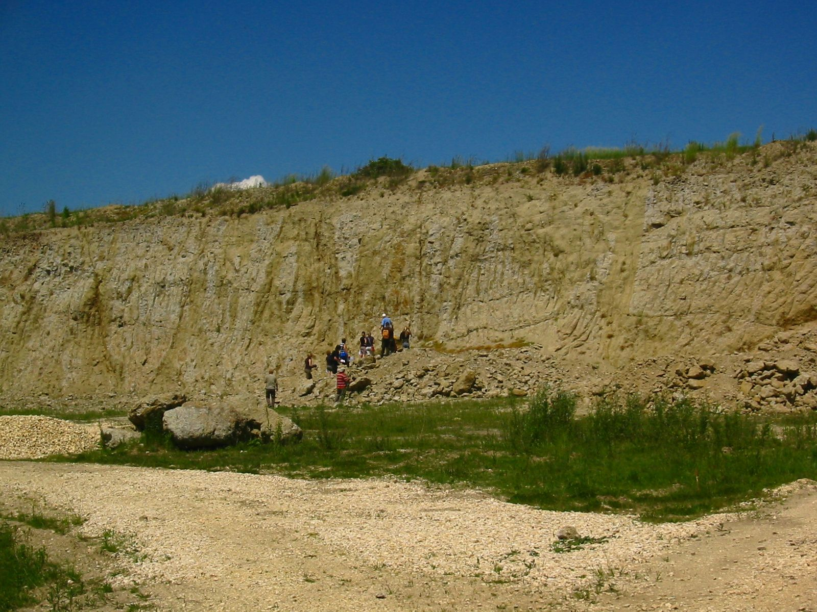 Hainsfarth, Germany